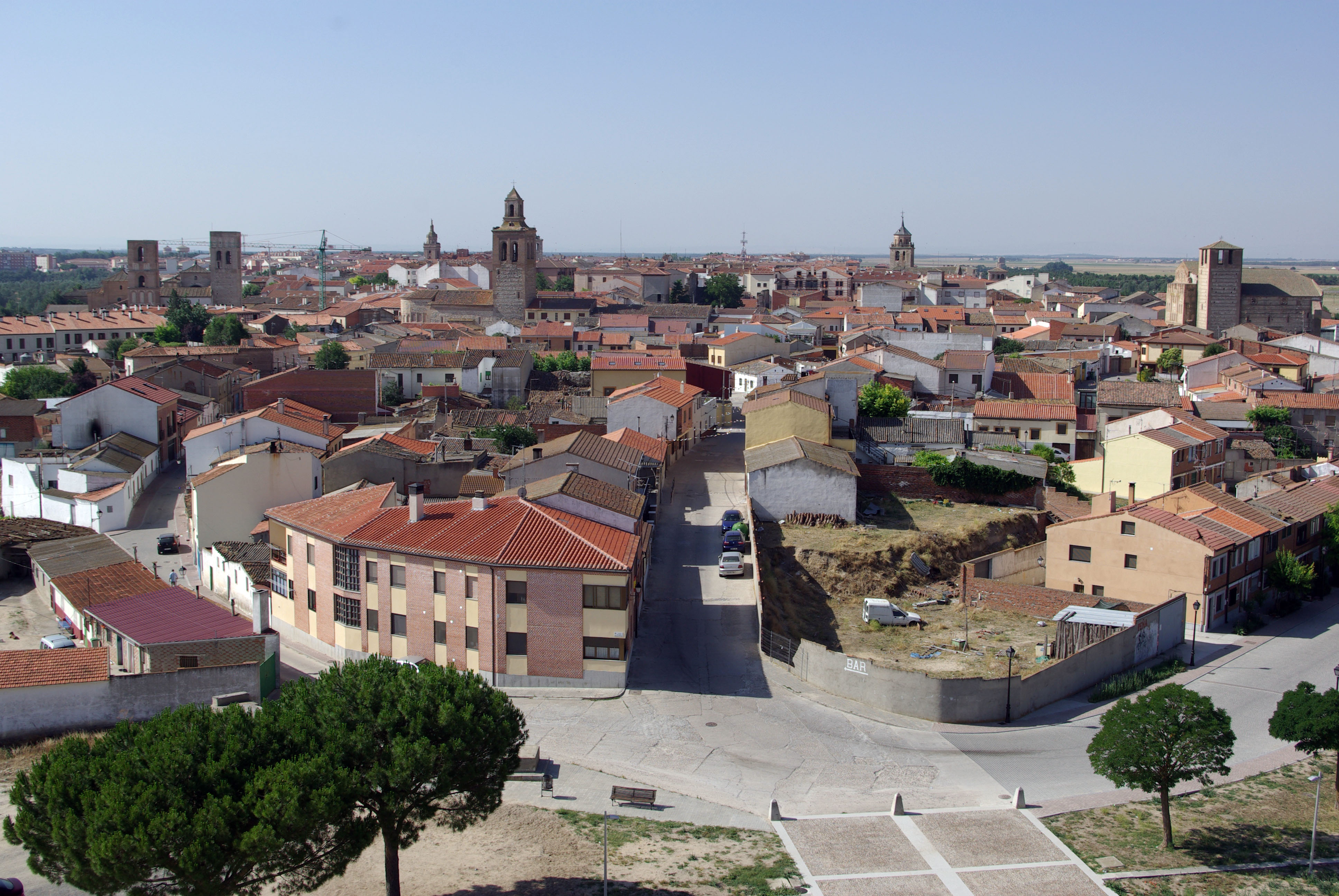 Arévalo from the Castle. (Province of Ávila, Spain).